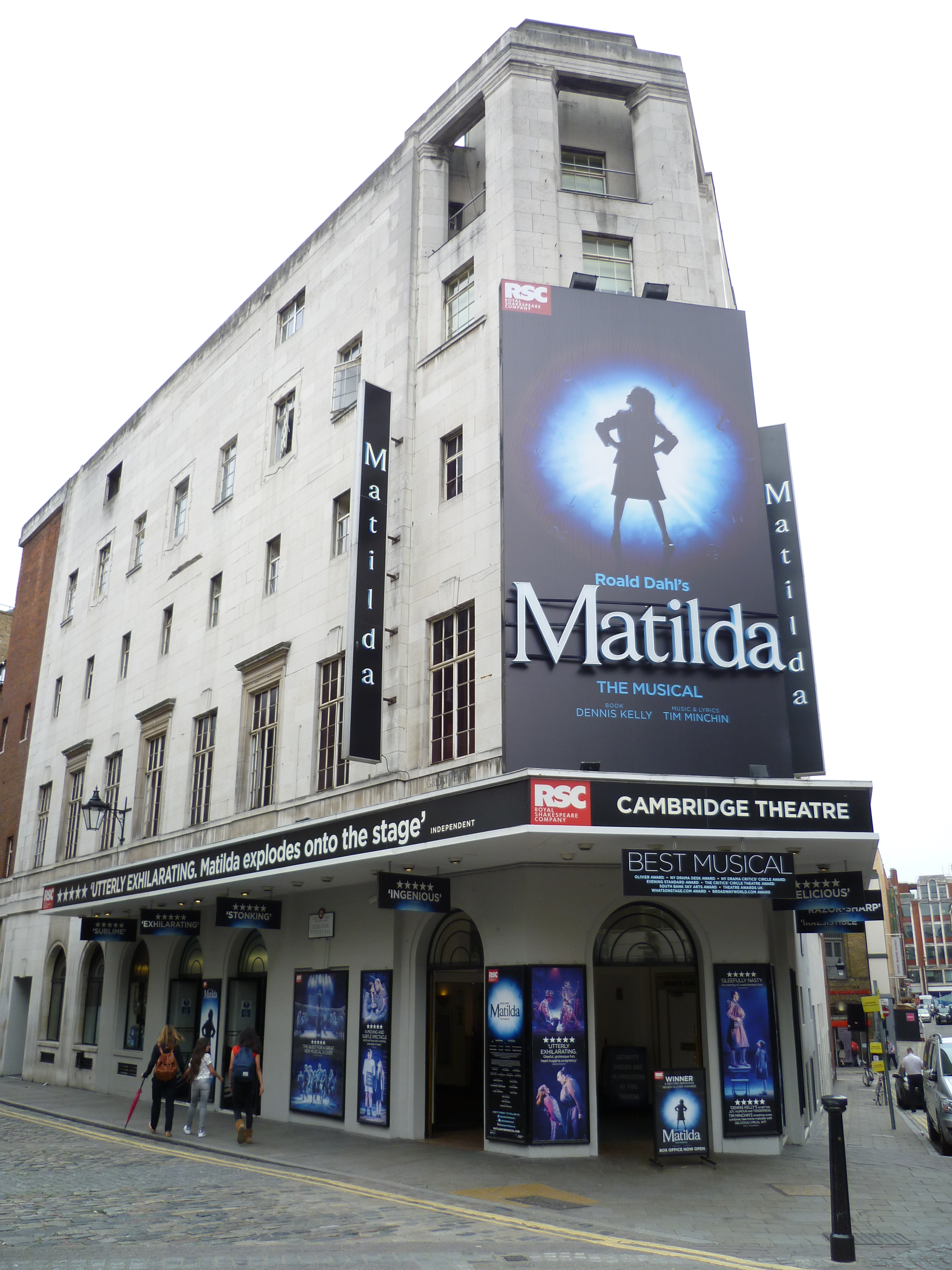 Cambridge Theatre, London, 28 July 2016